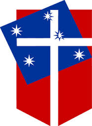 Arms of the Episcopal Anglican Church of Brazil.